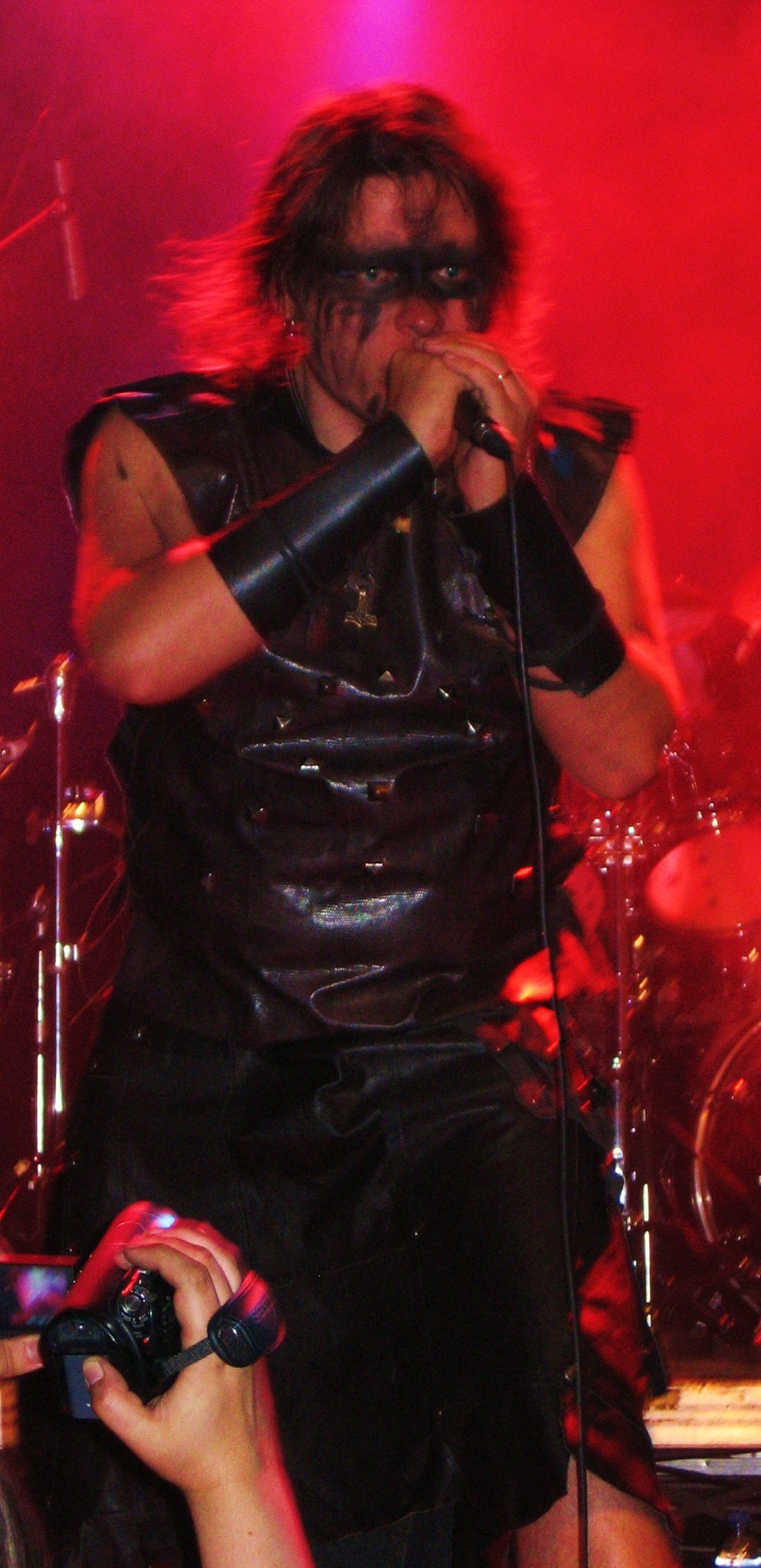 Tomi Mykkänen of Battlelore at Nosturi, Helsinki